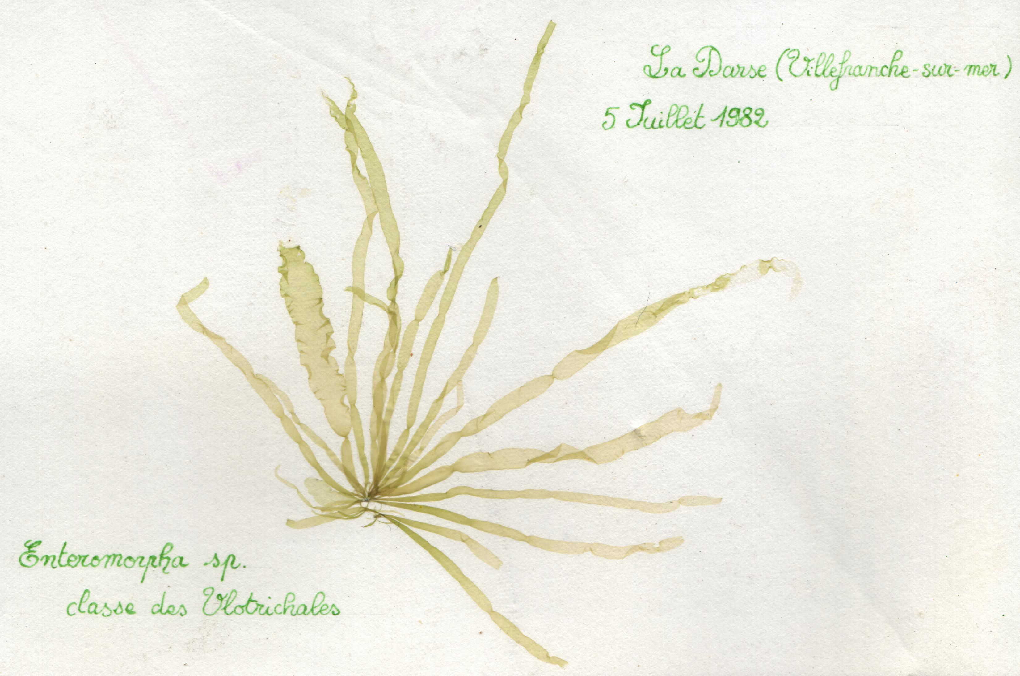 Enteromorpha sp. scan of herbarium: B.navez - JUL 1982 - Villefranche-sur-mer (France)